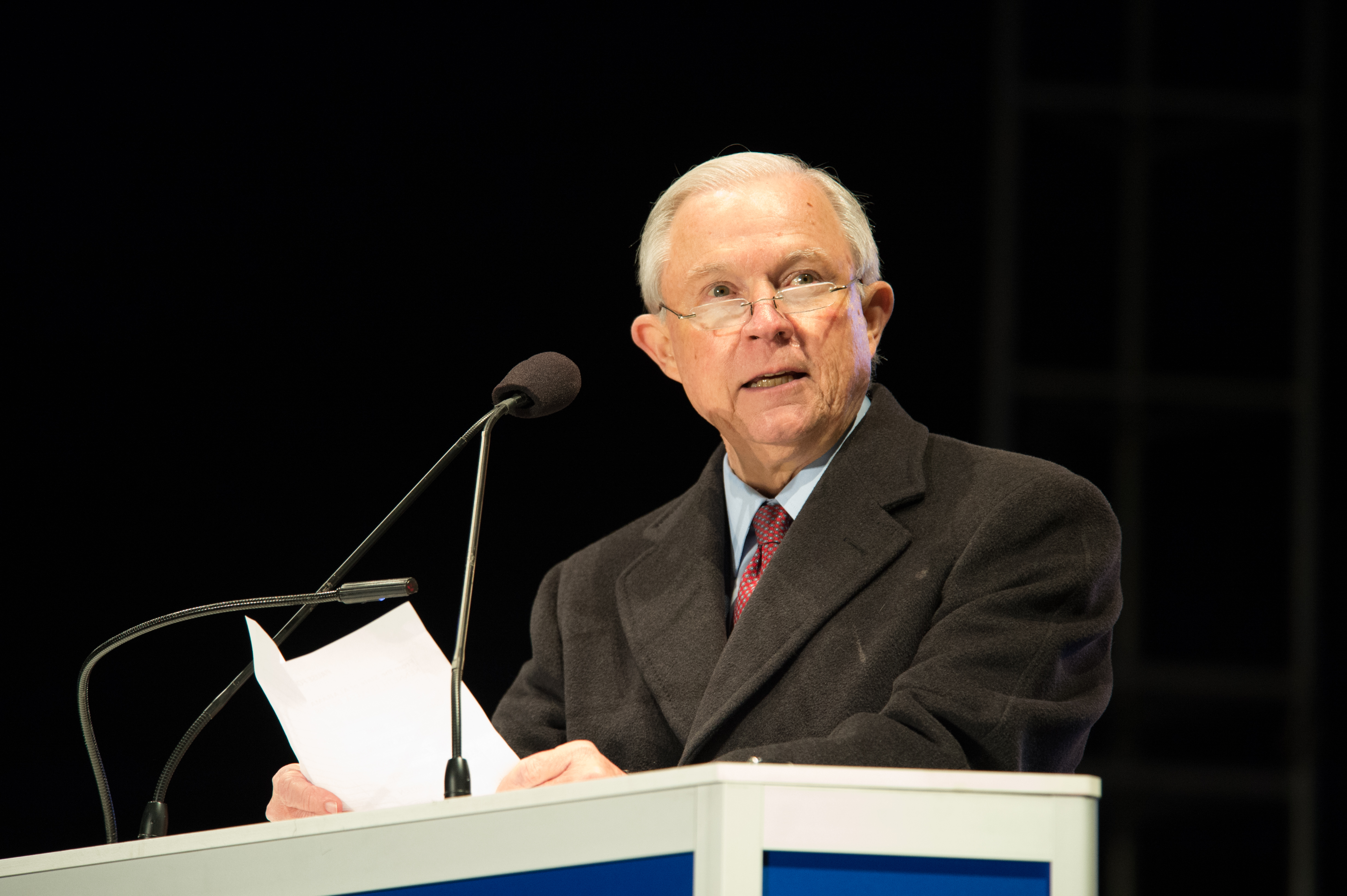 Washington, D.C., 13, May 2017. During the 29th annual Candlelight Vigil the names of the offer’s who were killed in the line of duty were read aloud as candles were lit by the thousands in attendance. U.S. Attorney General Jeff Sessions and Secretary of the Department of Homeland Security John Kelly spoke on the sacrifice made by law these law enforcement officers and the importance of officer safety. The Attorney General and Concerns of Police Survivors National President Brenda Donner began lighting of candles and U.S. Marshals Service Director David Harlow read the name of DUSM Patrick Carothers, who was killed in November of 2016, while apprehending a violent fugitive. Photo By: Shane T. McCoy / US Marshals